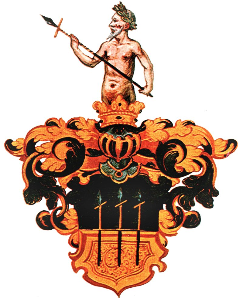 Stammwappen Manndorff